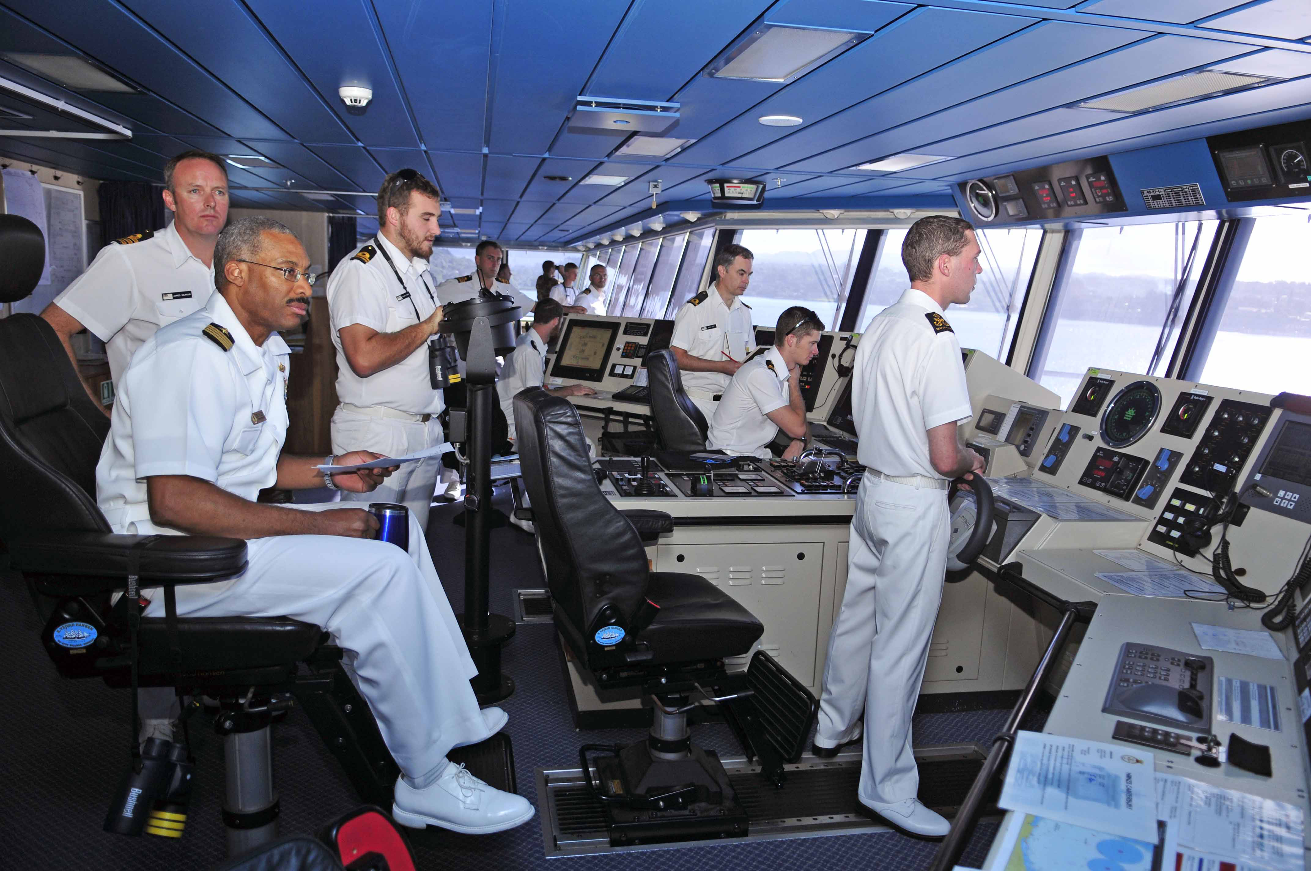 PORT VILA, Vanuatu (April 23, 2011) Capt. Jesse A. Wilson commander of Pacific Partnership and commodore of Destroyer Squadron 23 (DESRON 23), sits in the captain's chair aboard the New Zealand navy multirole vessel HMNZS Canterbury (L421) during a sea and anchor detail in Port Vila, Vanuatu. Pacific Partnership is a humanitarian assistance initiative which promotes cooperation throughout the Pacific. (U.S. Navy Photo by Mass Communication Specialist Seaman Christopher Farrington/Released)